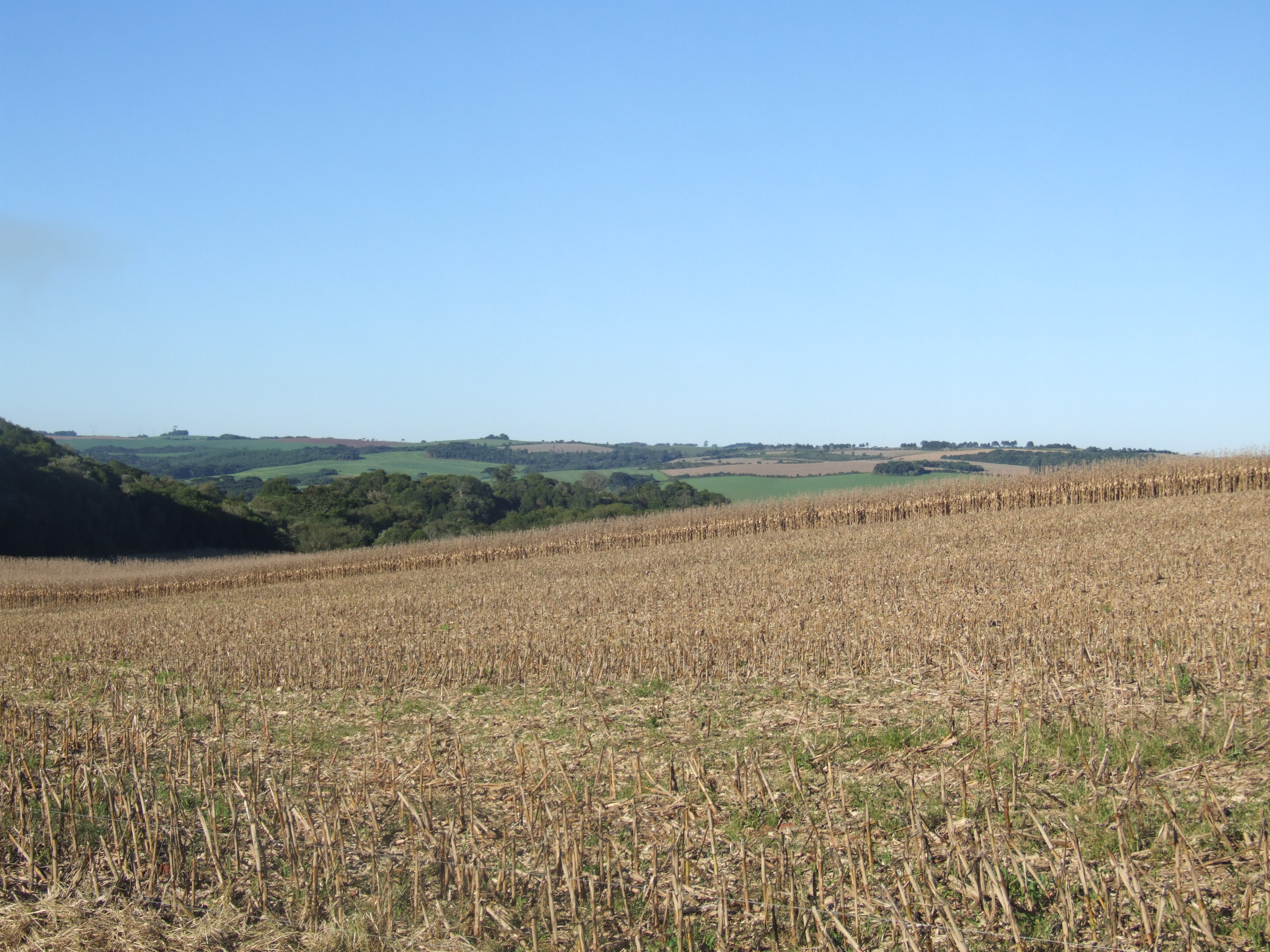 Agriculture in Campos Novos, State of Santa Catarina, Brazil